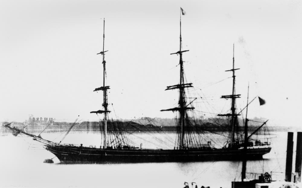 Halloween (ship)